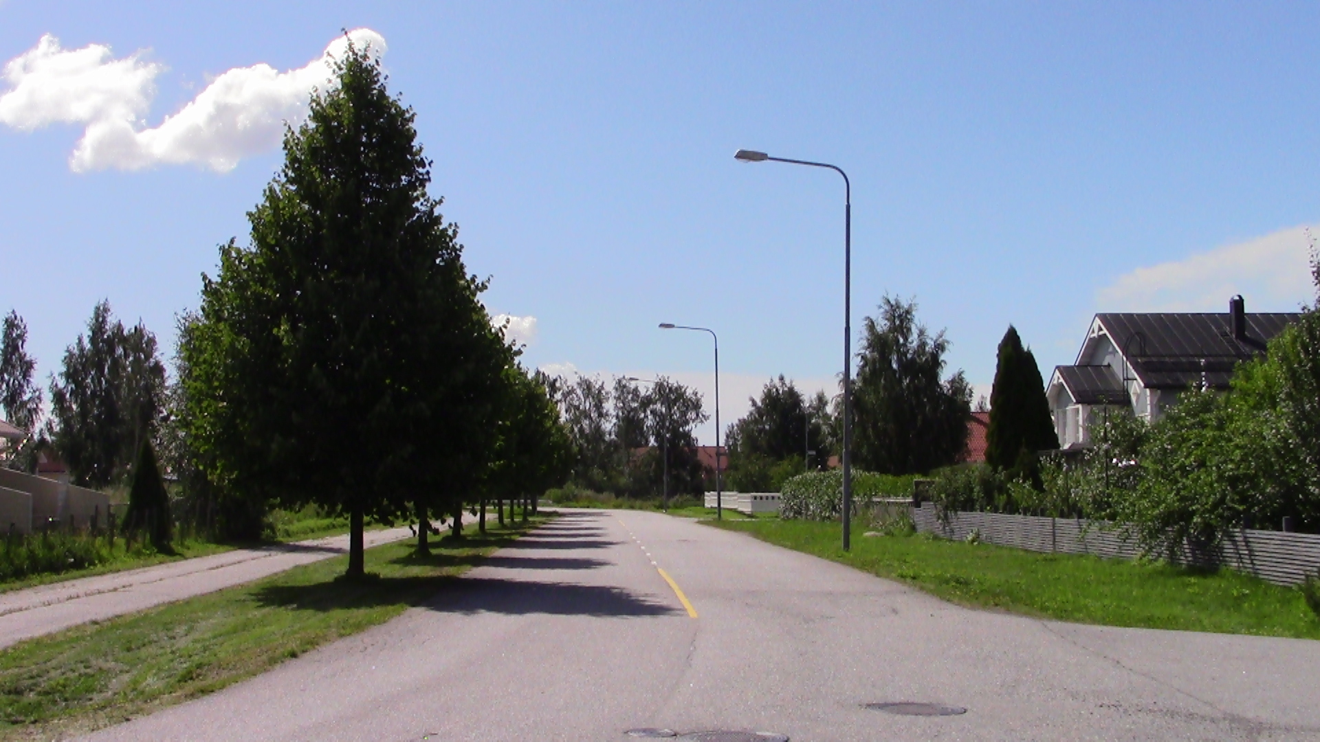 Iltaruskontie road at Lotskeri suburb in Pori, Finland.